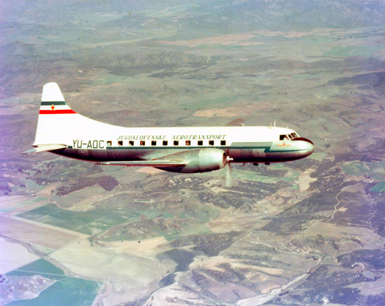 Catalog #: 00053755 Manufacturer: Convair Designation: 340 Official Nickname: Notes: Repository: San Diego Air and Space Museum Archive